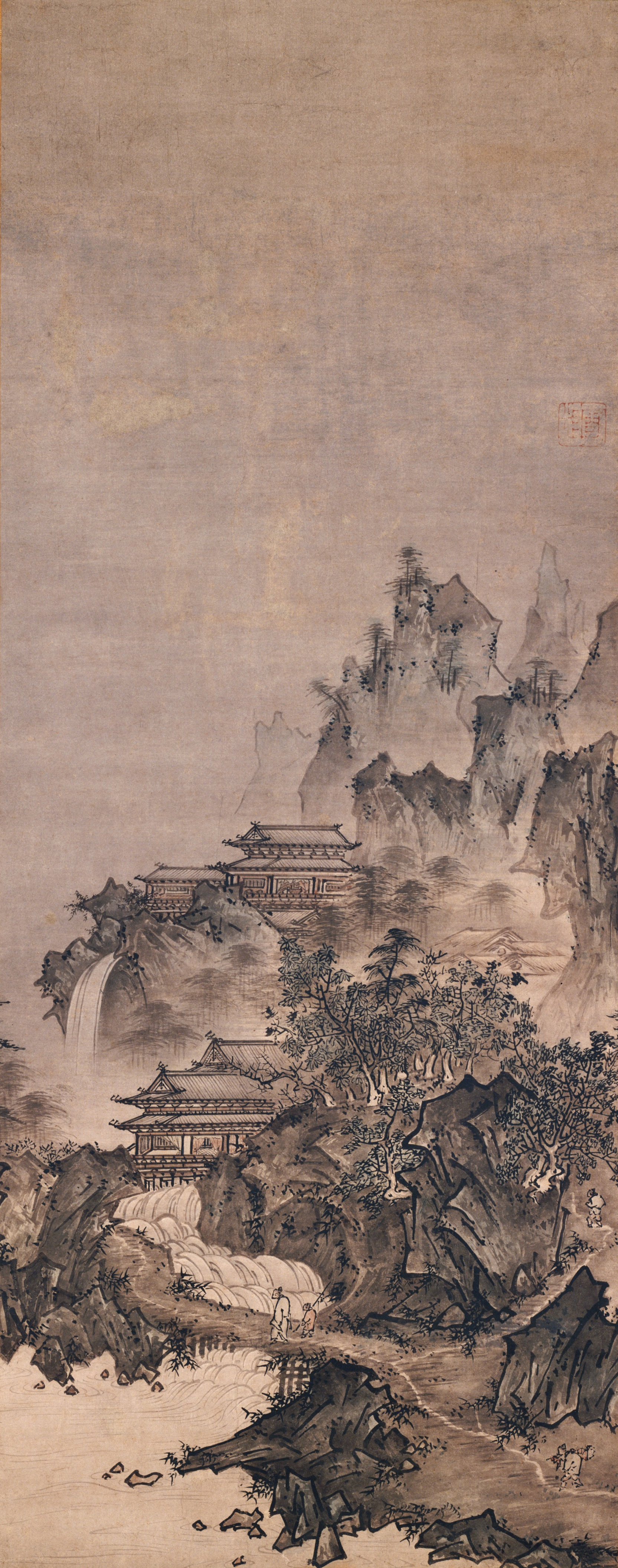 Landscape by Sesson, Kyoto National Museum, Japan